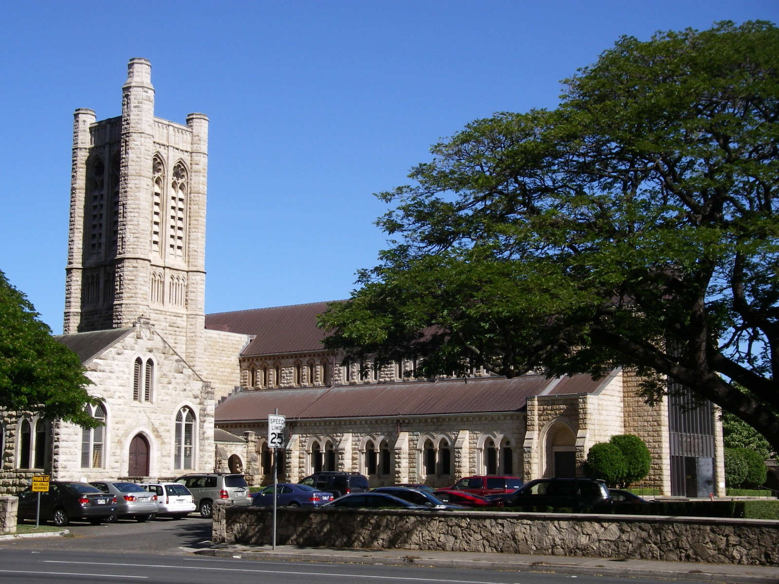 Honolulu's St. Andrew's Cathedral, seen from the Ewa side, that is, Richards Street, near Beretania Street